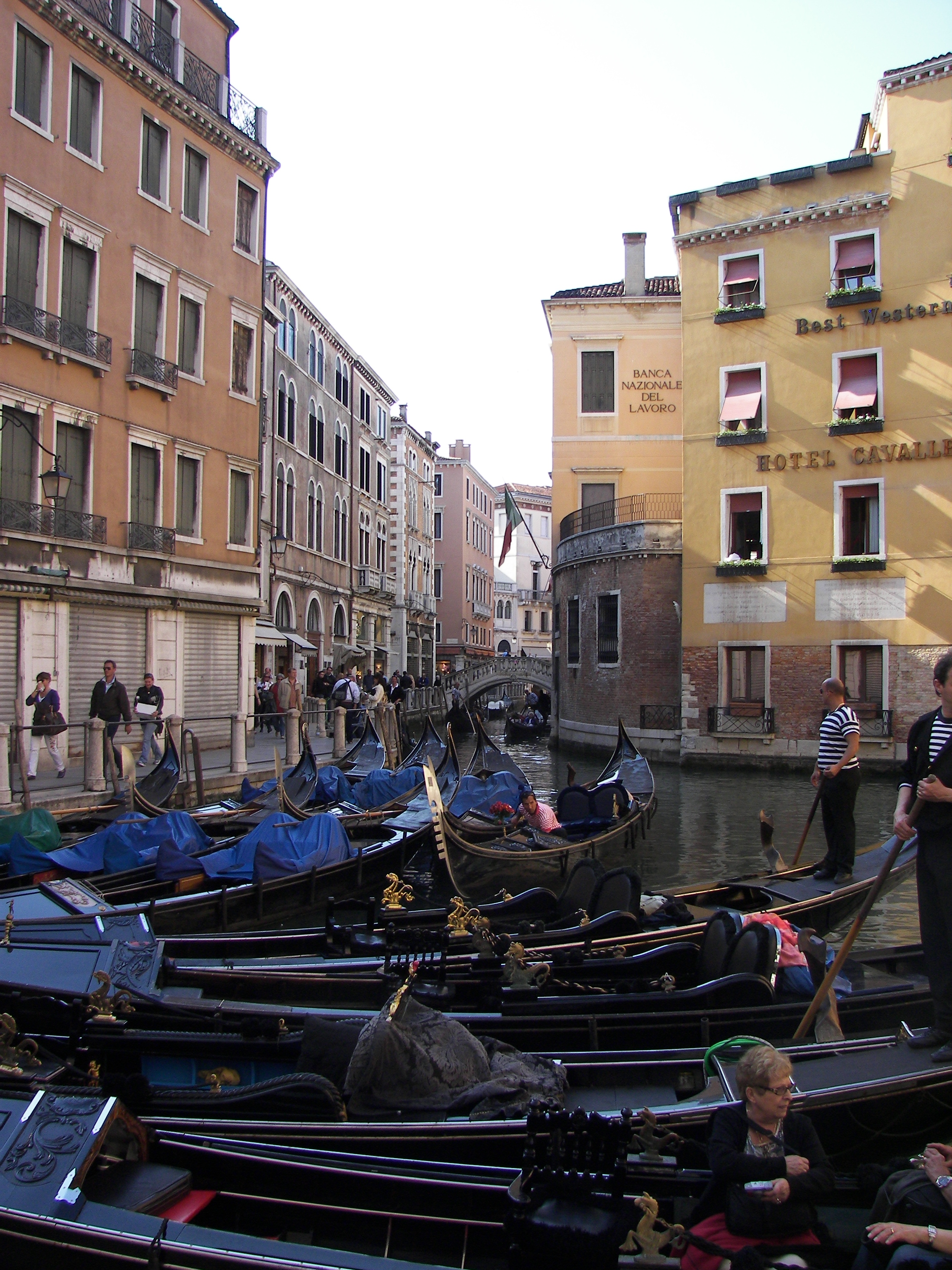 Bacino Orseolo a Venezia with Hotel Cavalletto in the background - waiting for a gondola ride. The Ponte Tron o de la Piavola is the bridge in the distance.